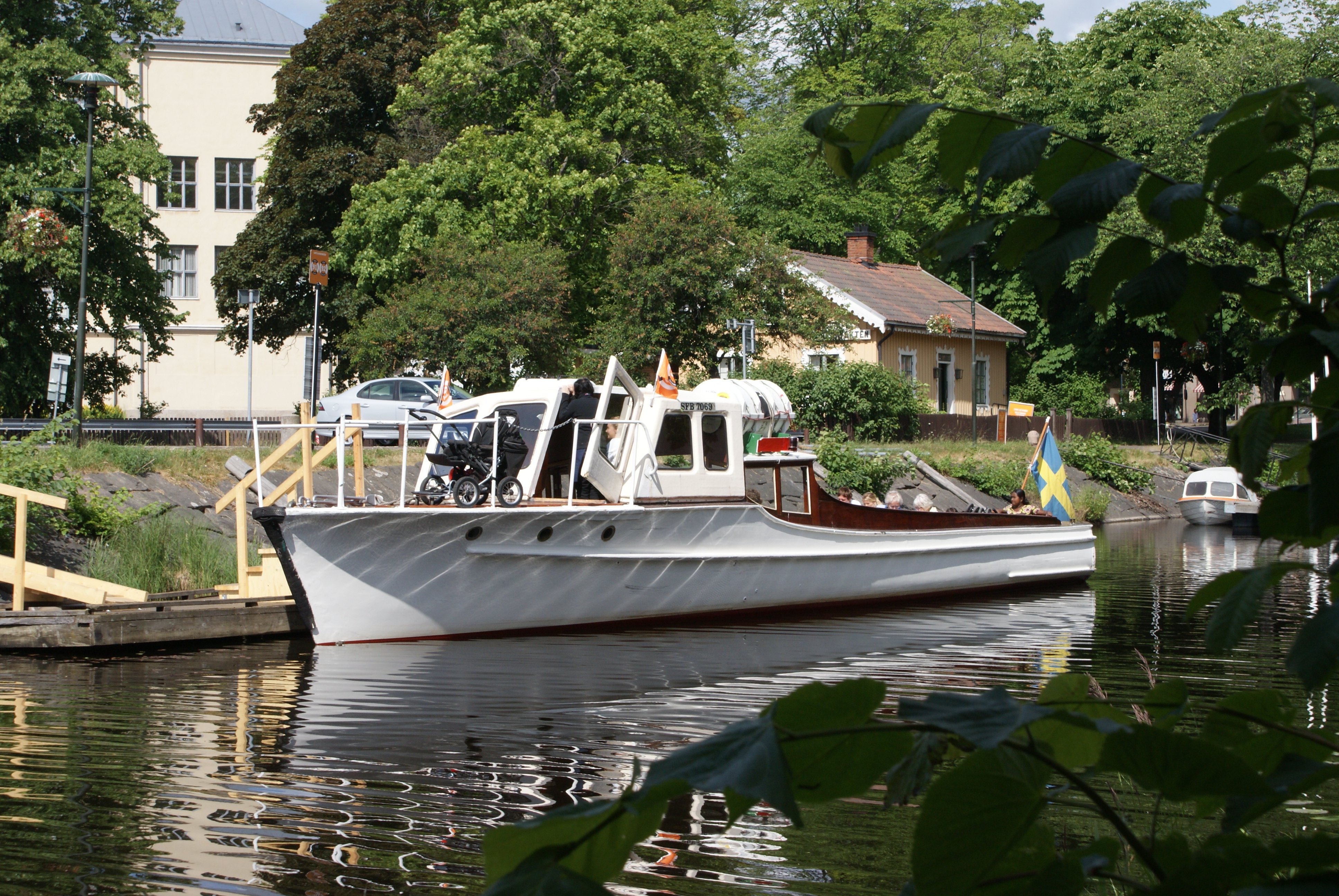 Bus by boat in Karlstad, Sweden